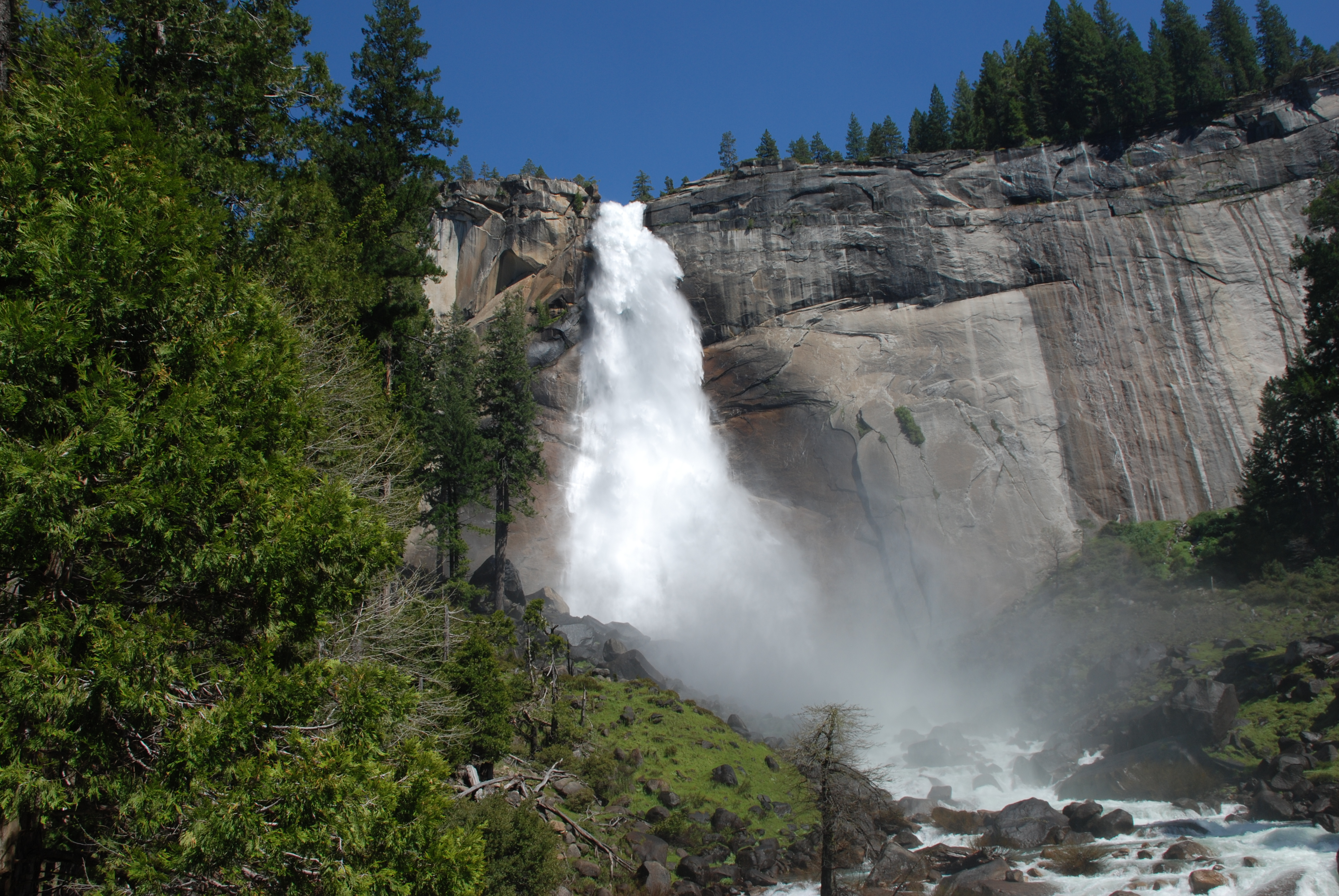 Nevada Fall and Merced River, Yosemite National Park, California, USA